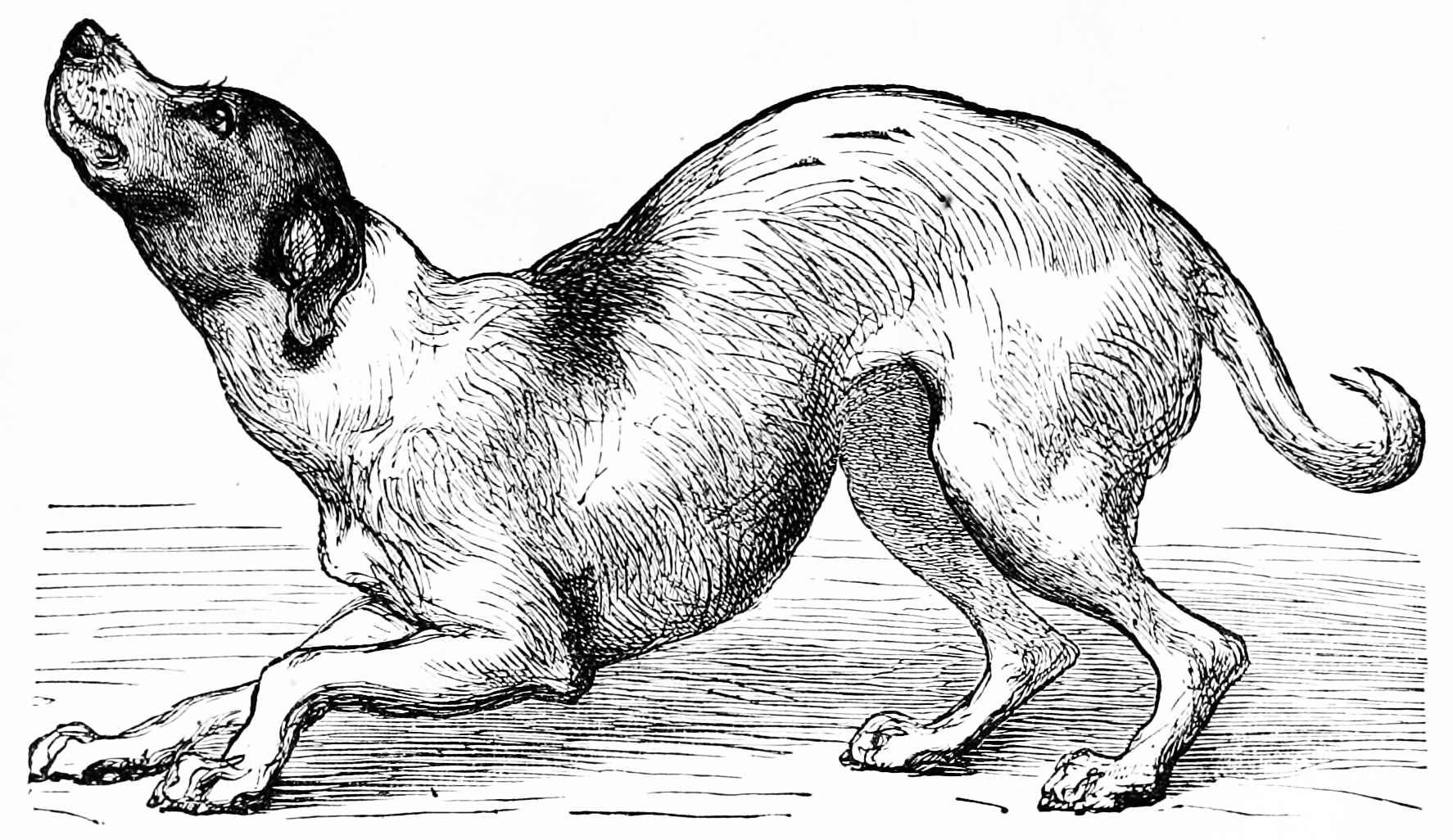 Affectionate dog